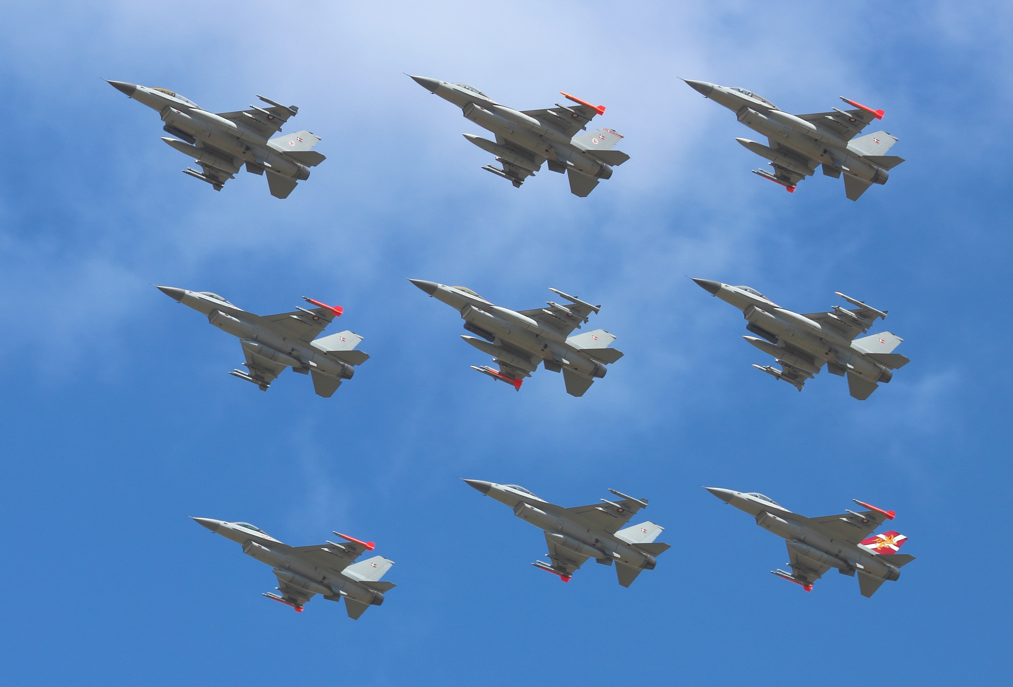 A diamond formation of nine General Dynamics F-16 Fighting Falcon aircraft from Squadrons 727 and 730, Fighter Wing Skrydstrup, Royal Danish Air Force on a display flight at Danish Air Show 2014. At the time the photograph was taken, there were 30 operational F-16s in Denmark. The configuration of the individual aircraft varies, but includes 370GL Conformal fuel tanks, Litening G4 targeting pod, Modular Reconnaissance Pod (MRP) manufactured by Terma A/S.